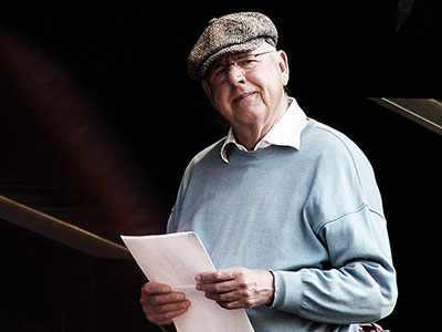 Klaus Rifbjerg, jazz and poetry in Aarhus